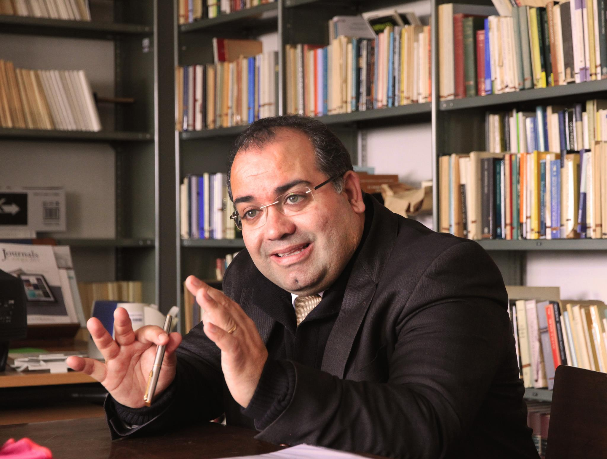 Professor José Eduardo Franco (2013)